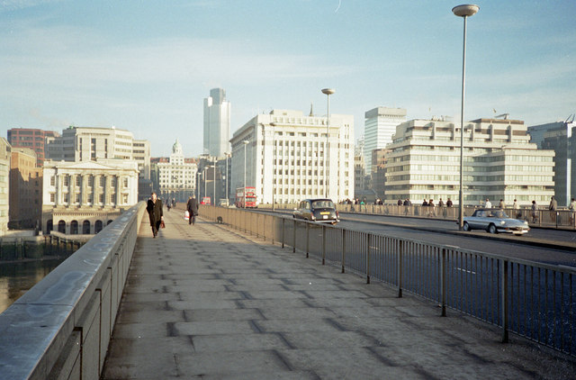 London Bridge Photo taken about 10am on a January morning in 1987 hence relatively few commuters heading for the City.